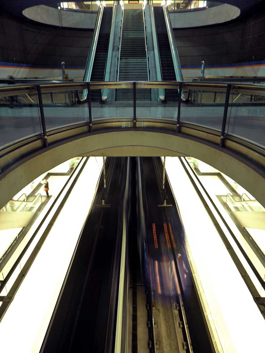 View of the Valdezarza Metro Station, -line 7 of the Metro of Madrid, Spain.